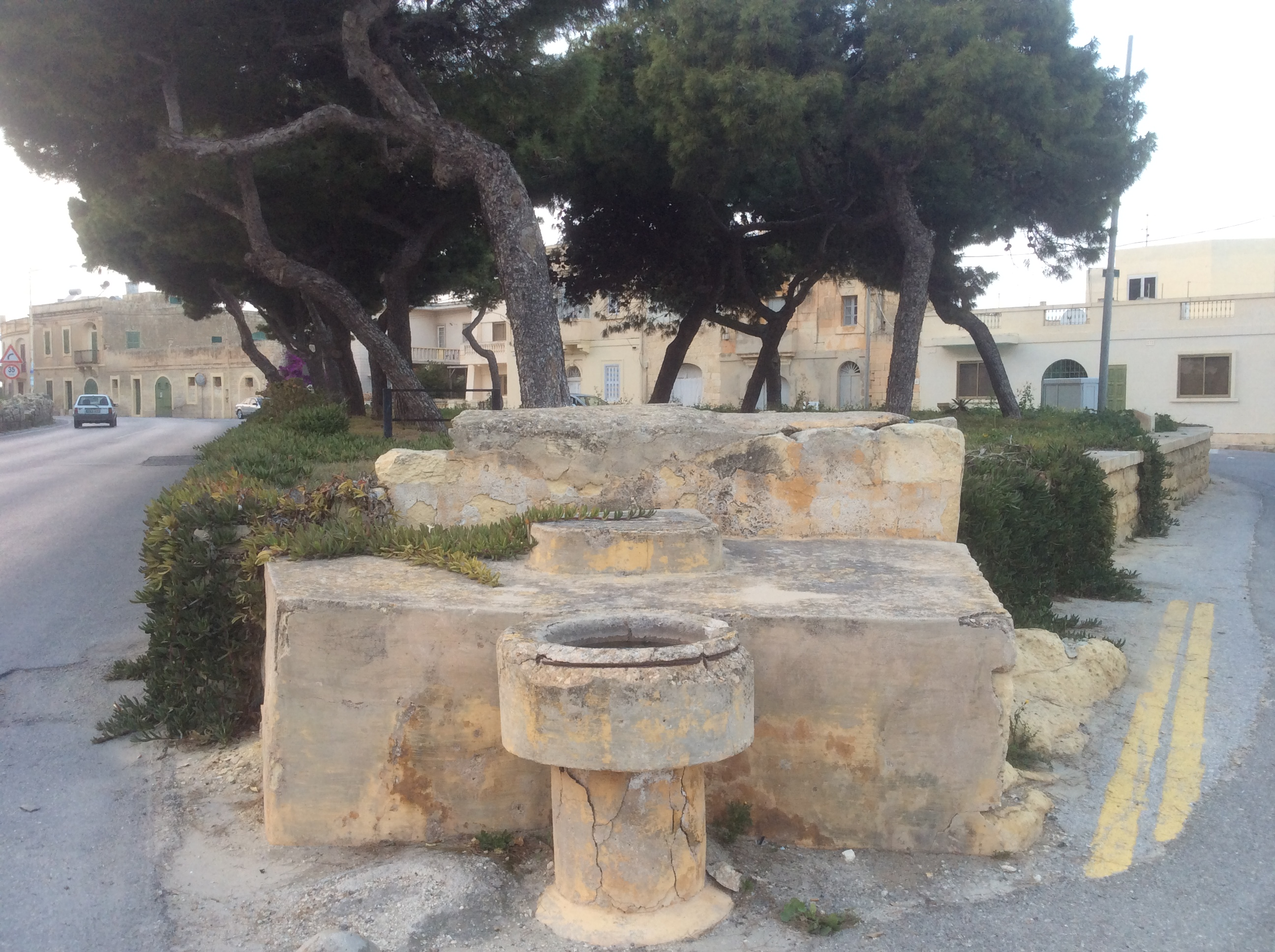 Fountain and Hompesch Hunting Lodge in Naxxar